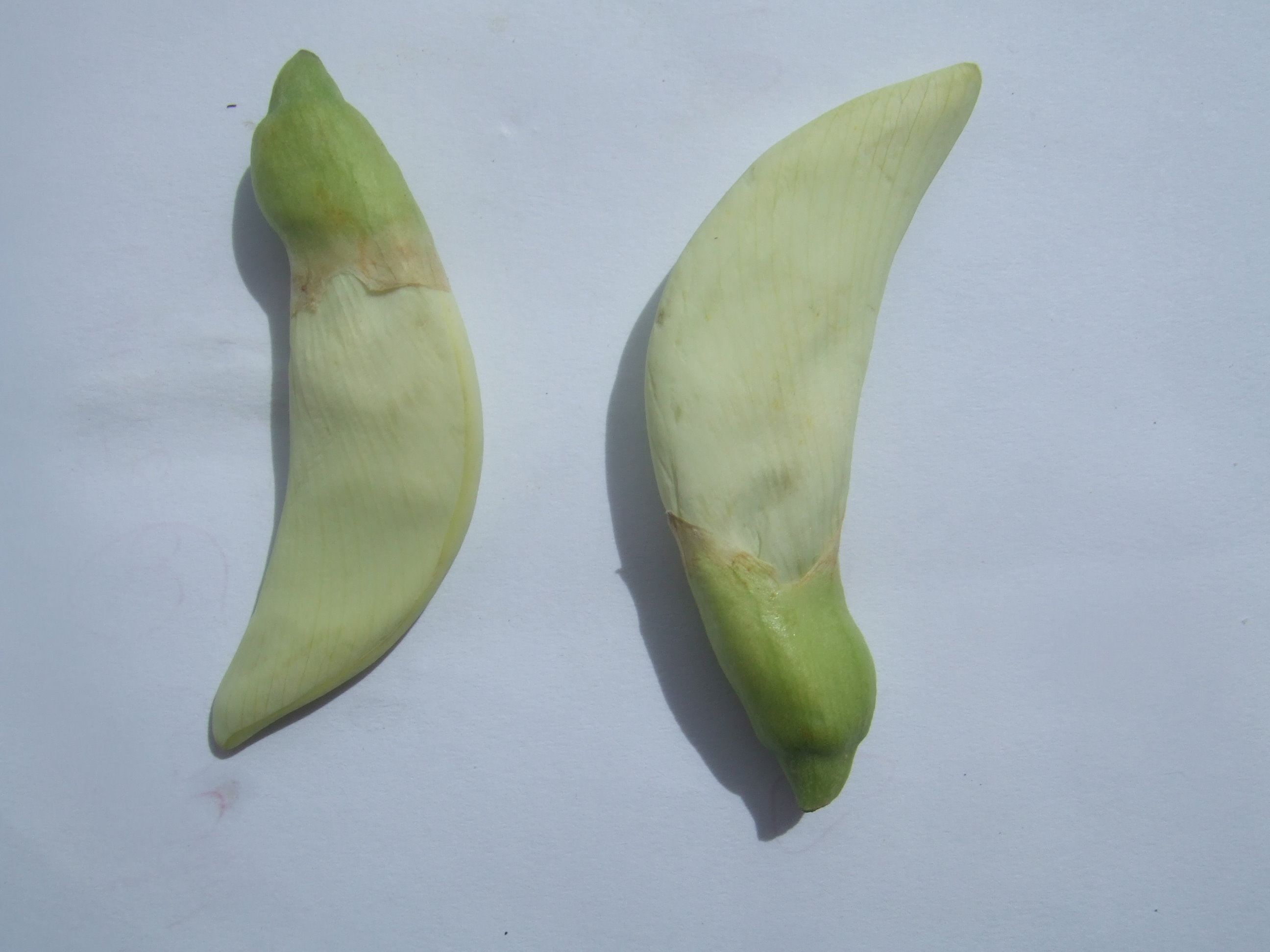 Sesbania grandiflora (Dok kae), bought at a Chinese supermarket at the West-Kruiskade in Rotterdam, The Netherlands